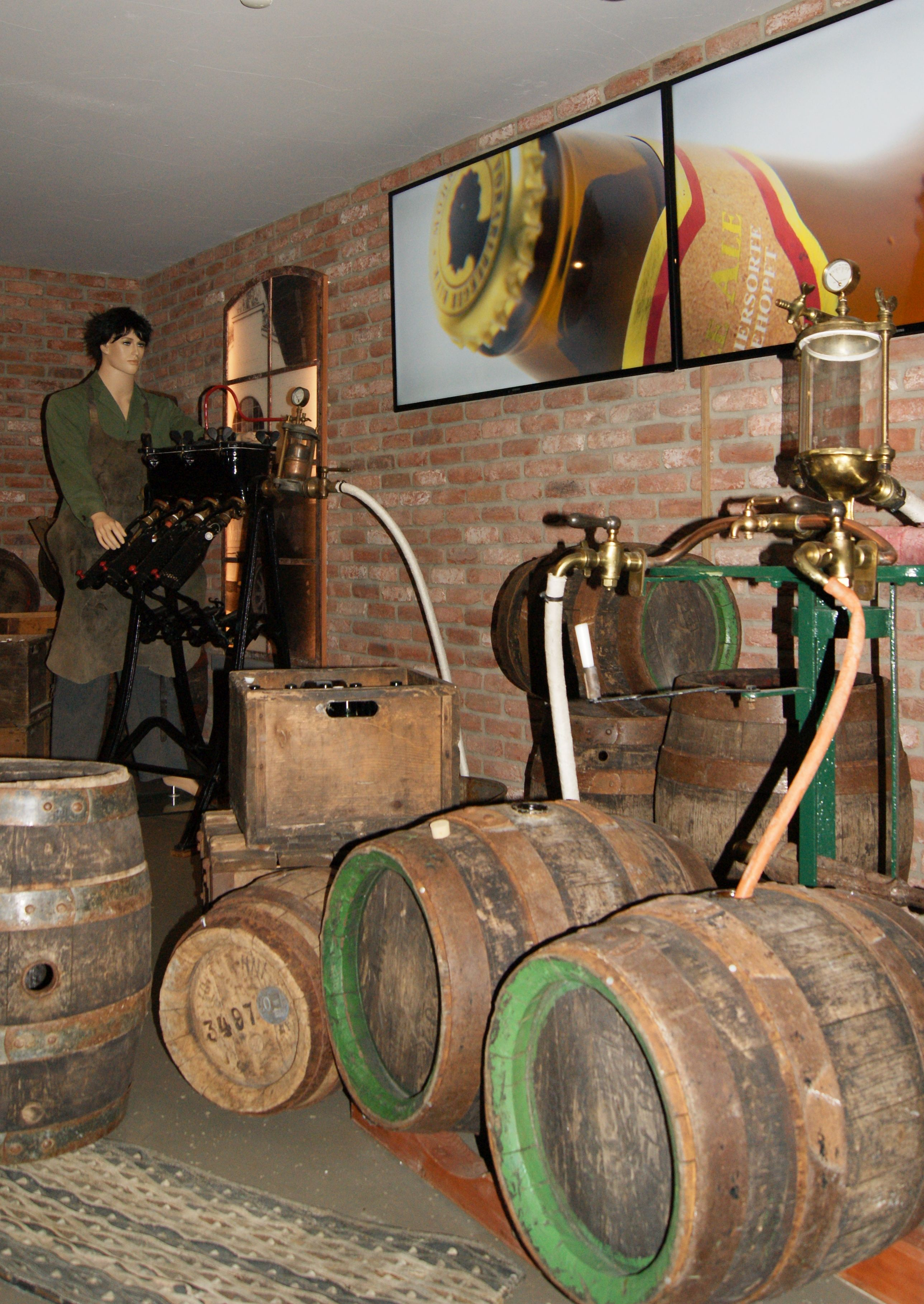 Mohren beer experienceworld in Dornbirn, Vorarlberg, Austria. Bottling.